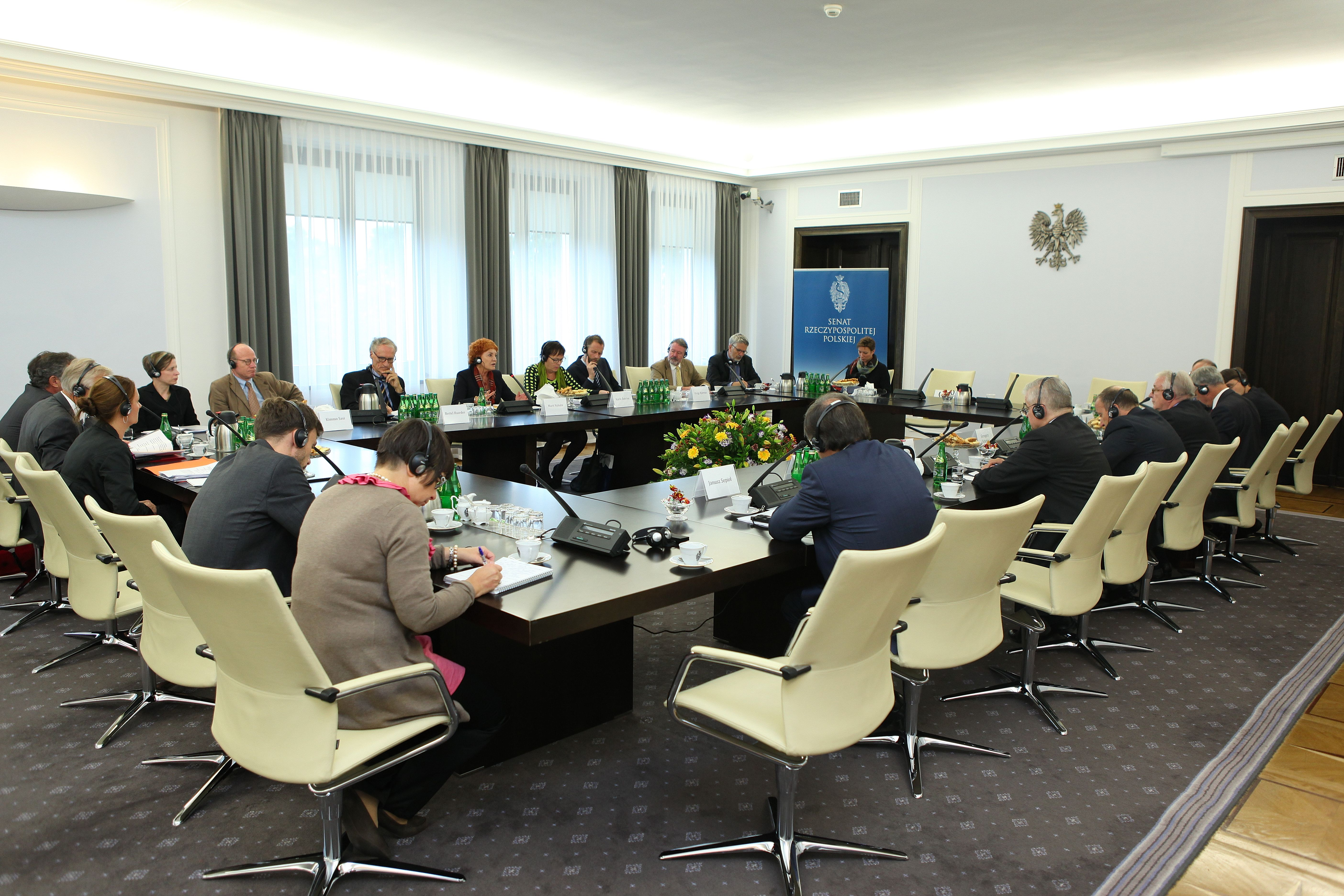 Meeting of Polish parliamentarians with the Presidium of the Nordic Council in the Polish Senate